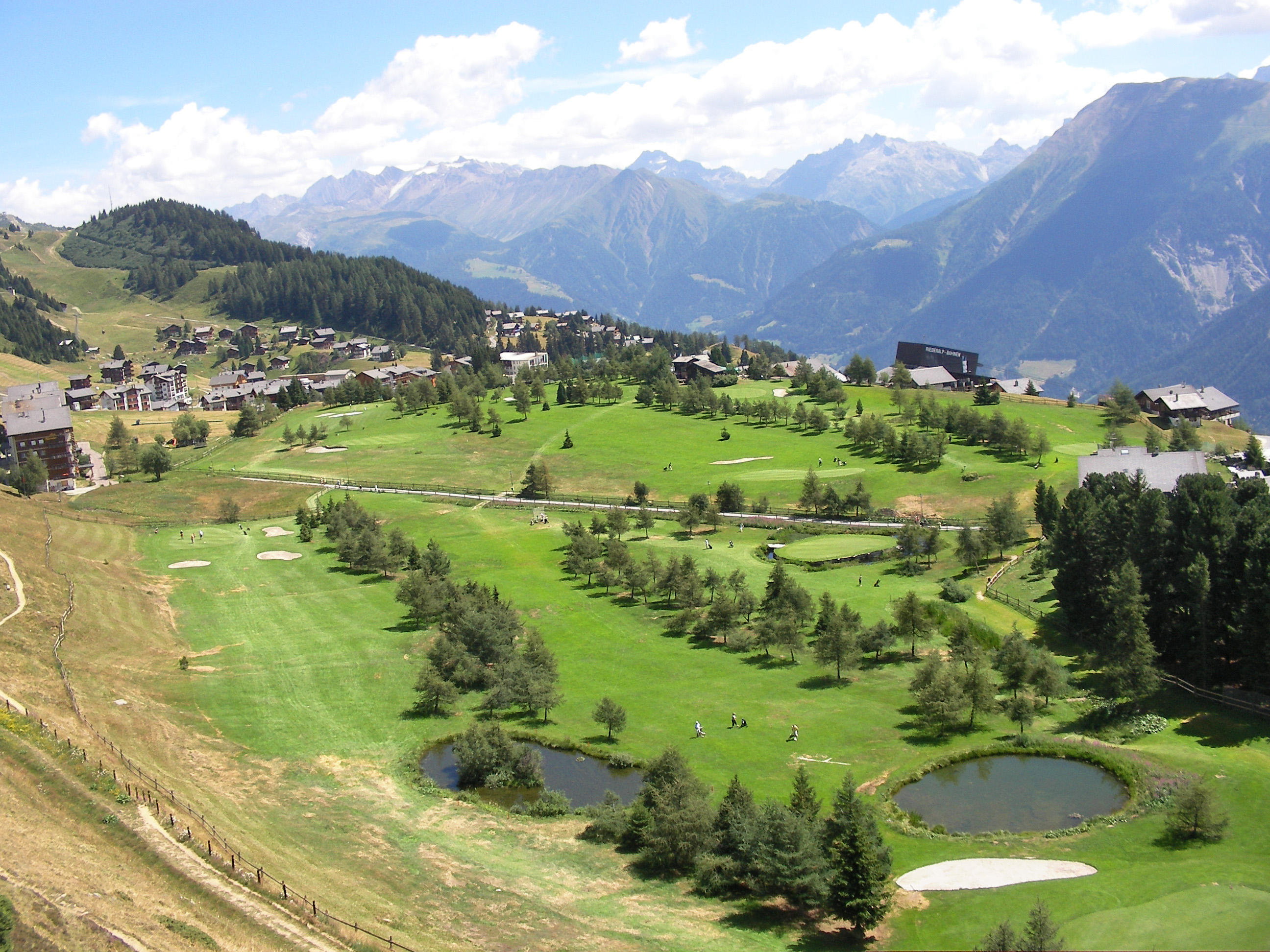 View of Riederalp Golf Course, Switzerland, taken from Cable Car descending from Hohfluh